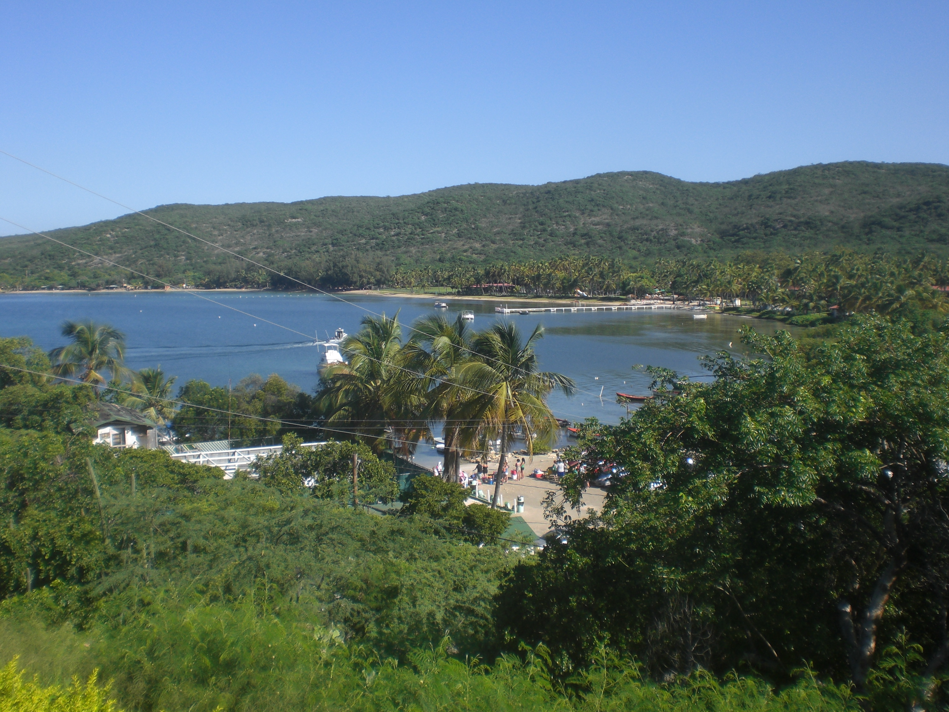 Caña Gorda view from Mitchell by the Sea